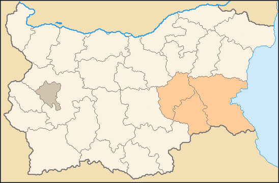 Region South-East Bulgaria (Provinces in South-East Bulgaria: District Bourgas, District Sliven, District Yambol)